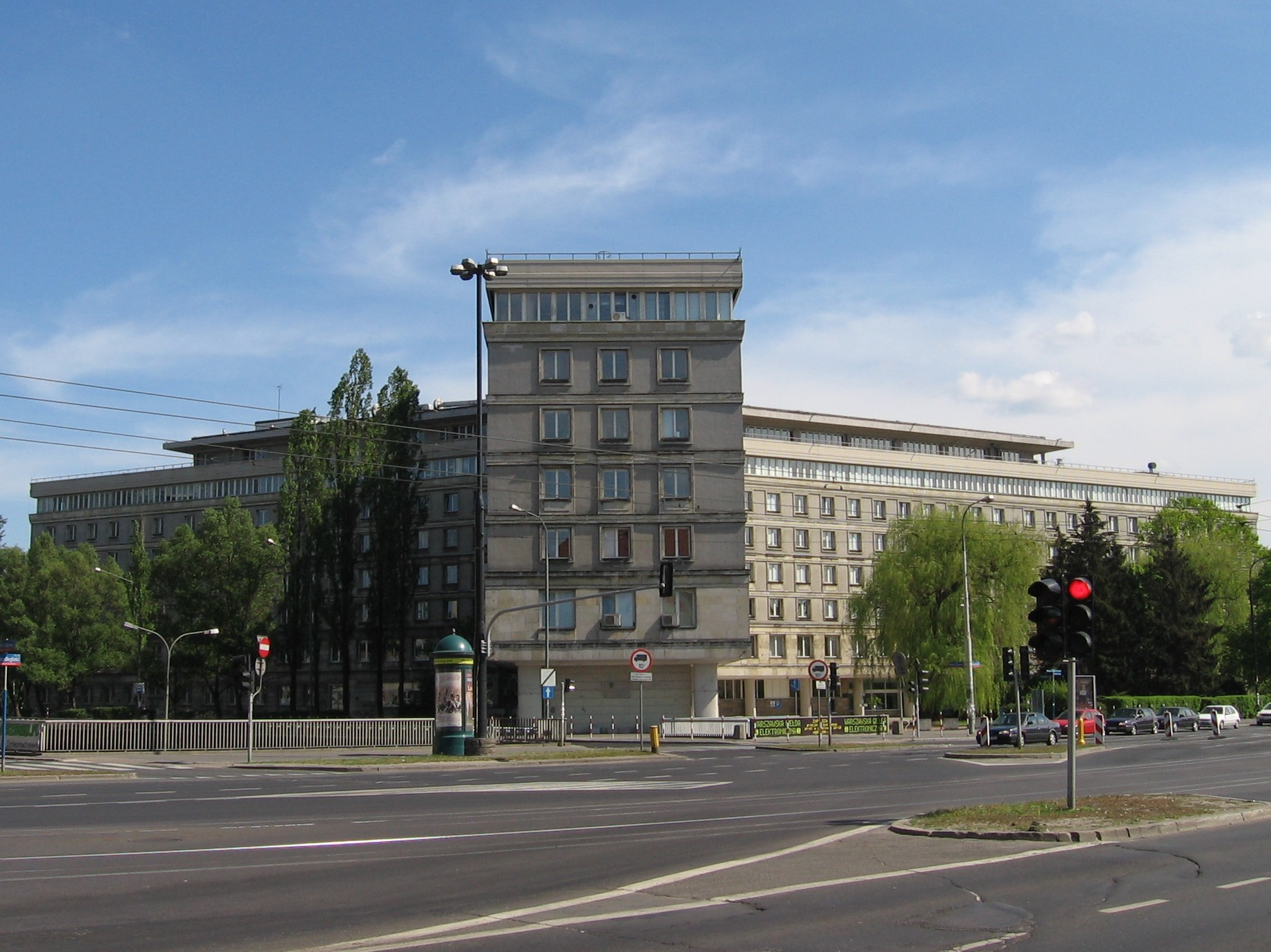 Central Statistical Office, Warsaw, Poland